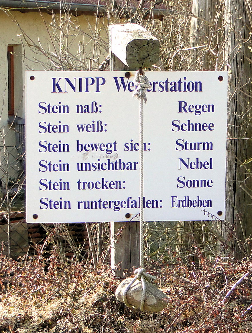 Weather station in Dinnies, district Parchim, Mecklenburg-Vorpommern, Germany